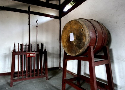 The picture of Zhangu or war drum